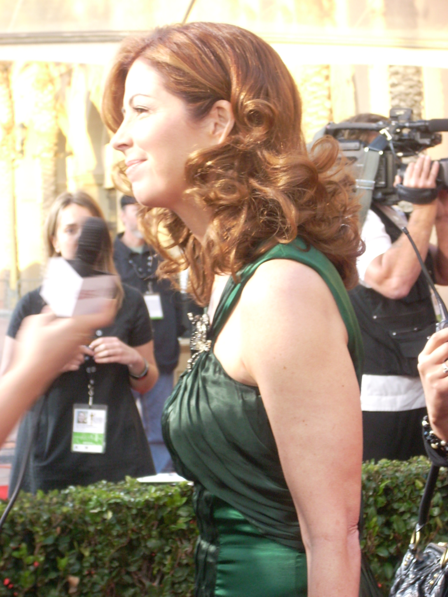 Actress Dana Delany, star "Desperate Hausewives", at the 15th Screen Actors Guild Awards